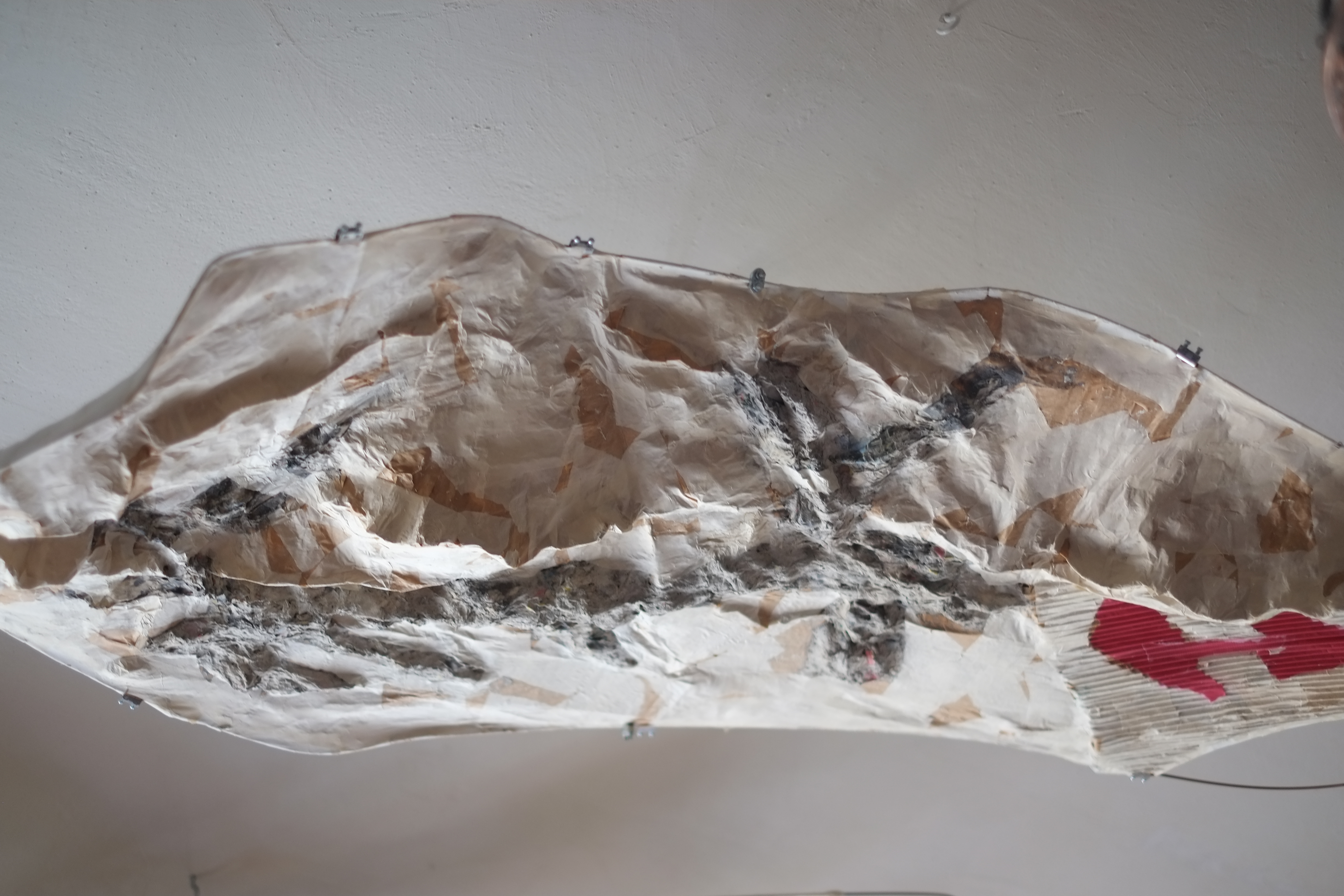 Hermann Härtel_Aeronautical Objekt_wire and paper